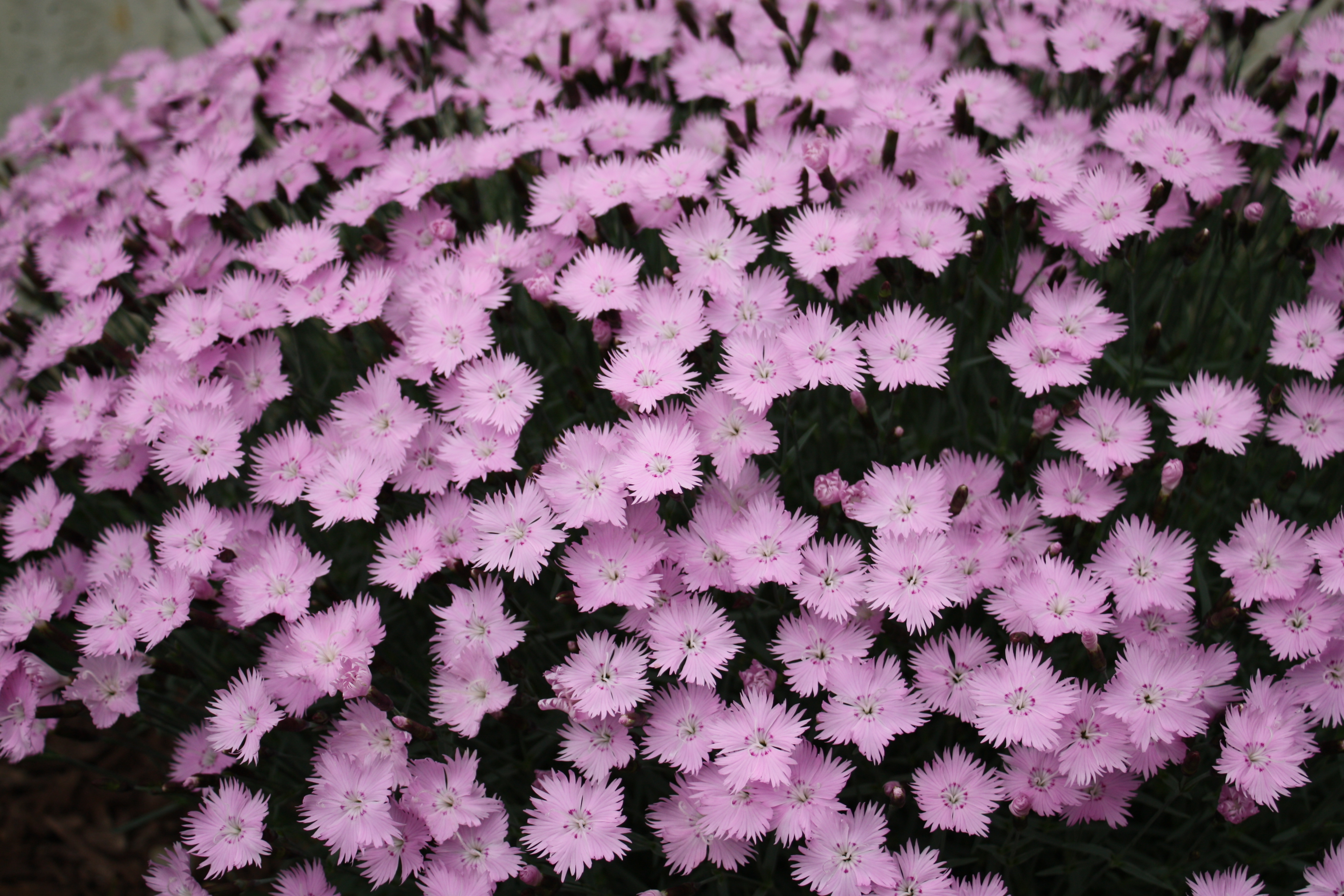 Dianthus gratianopolitanus "Bath's Pink" in Full Bloom